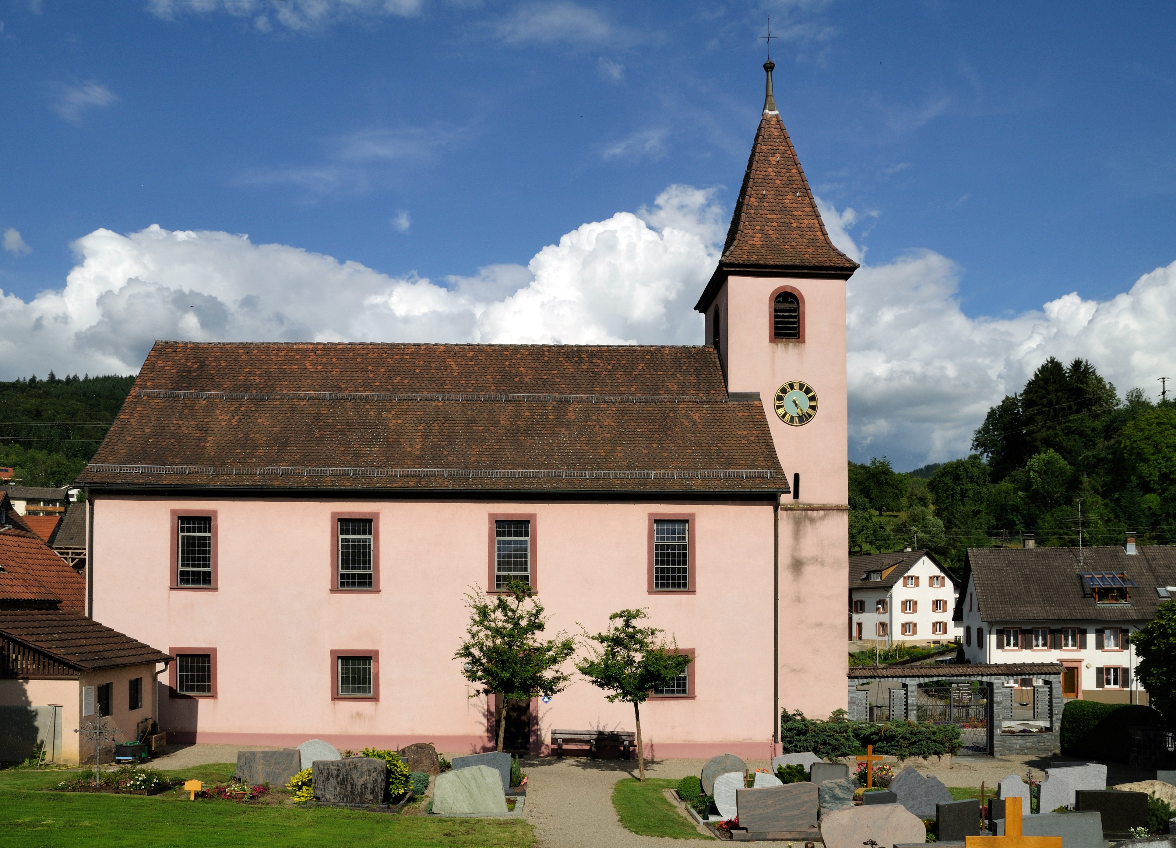 Hasel: Protestant Church